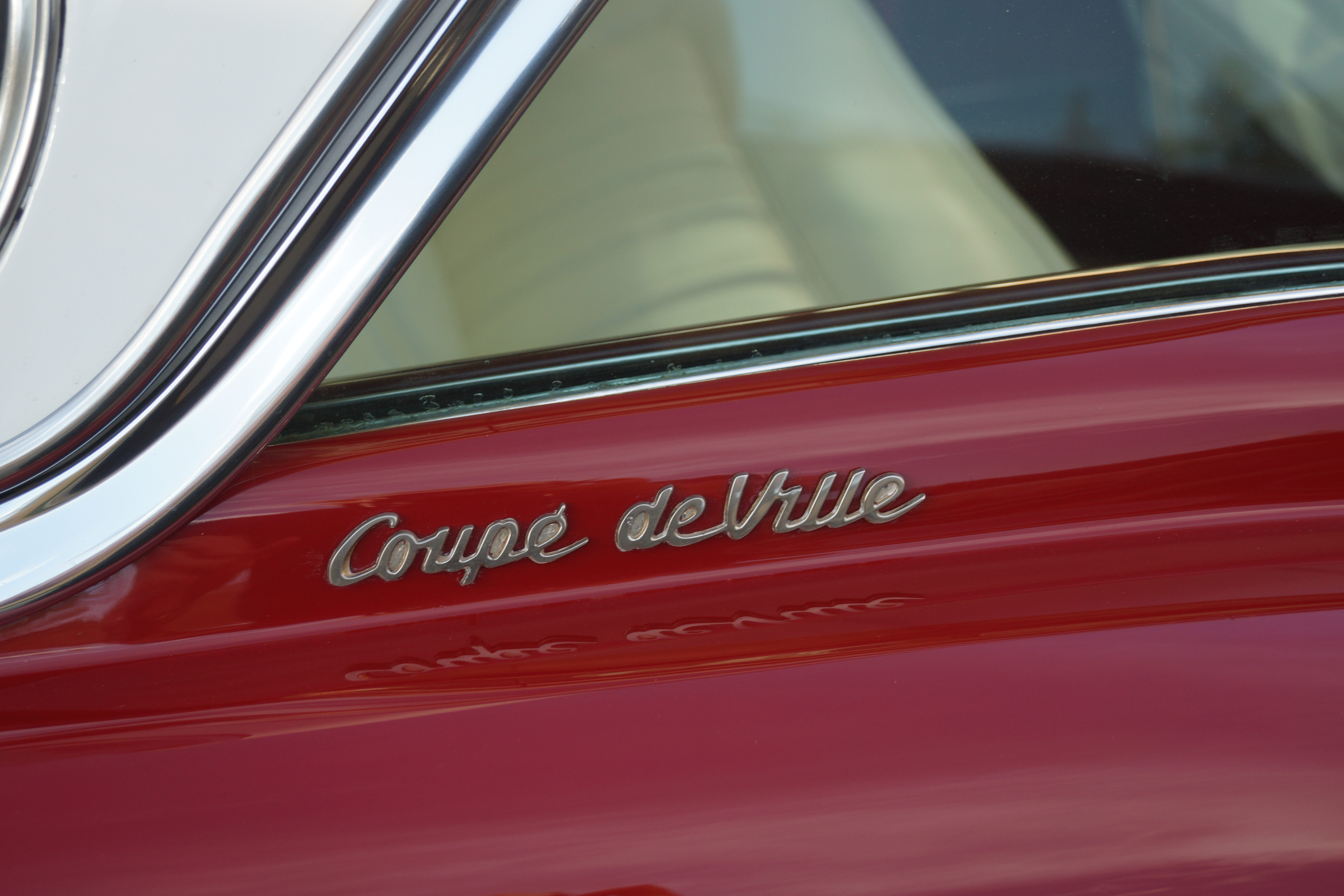 1955 Cadillac Coupe de Ville HISTORIC DOWNTOWN HASTINGS CRUISE-IN & CLASSIC CAR SHOW Hastings, Minnesota September 2016